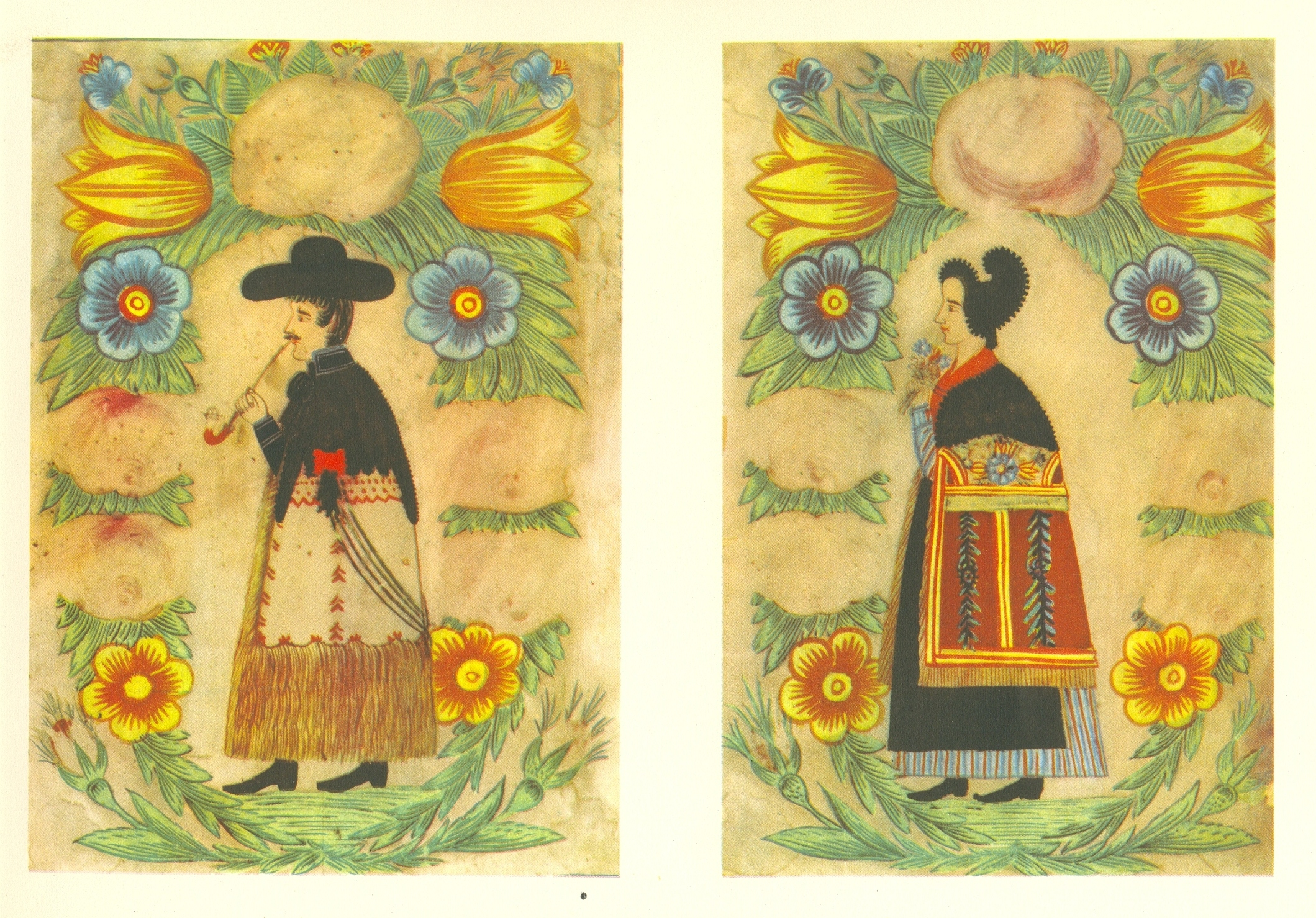 Man and woman from Debrecen, Hungary, 19th century